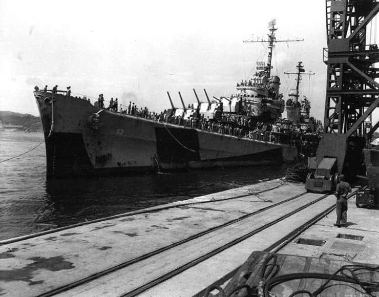 Yokosuka Navy Base, Japan: USS San Diego (CL-53) docks at Yokosuka on 30 August 1945, to take part in the U.S. occupation of that facility.